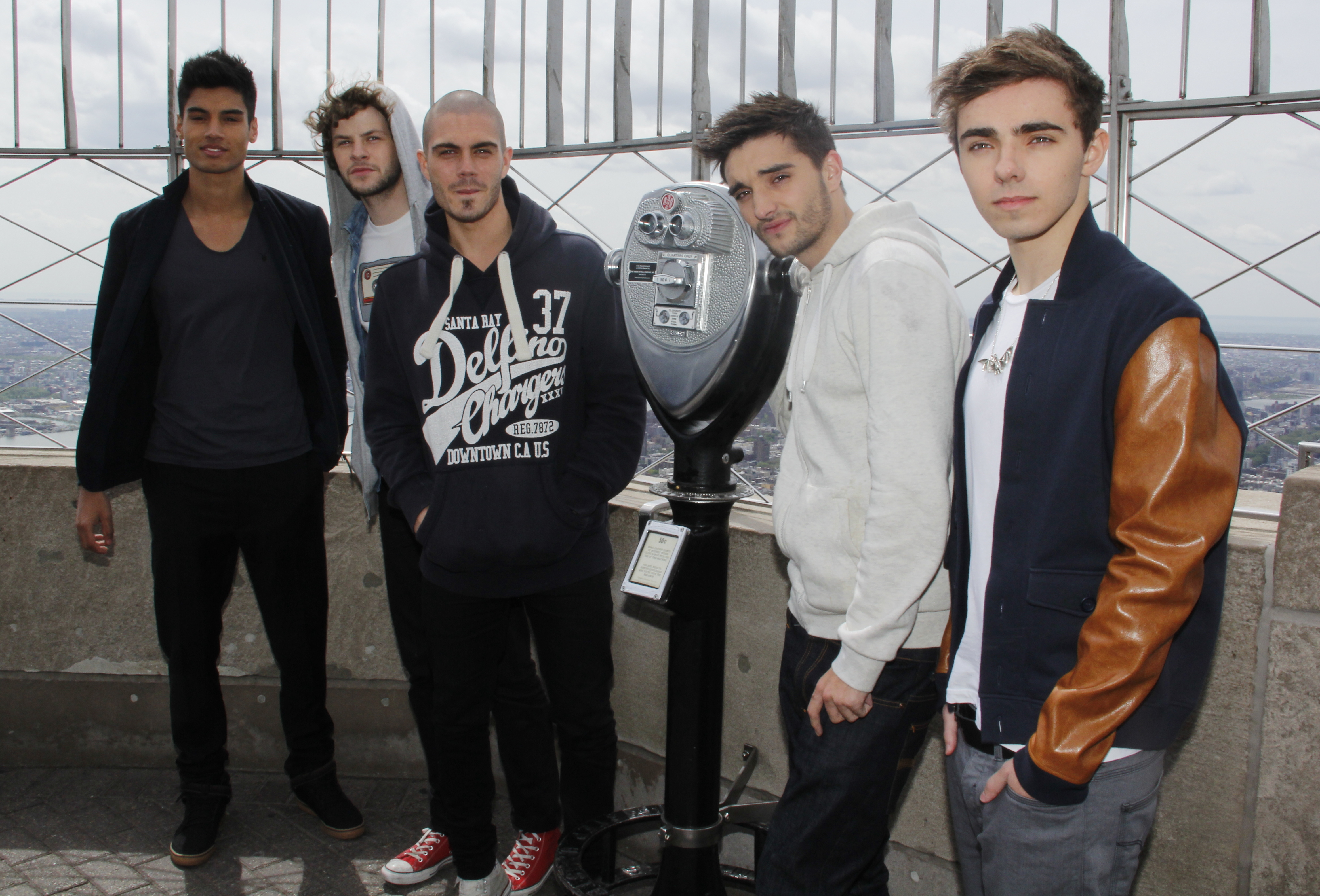 The Wanted, Empire State Building Observation Deck, April 24th 2012, New York City.